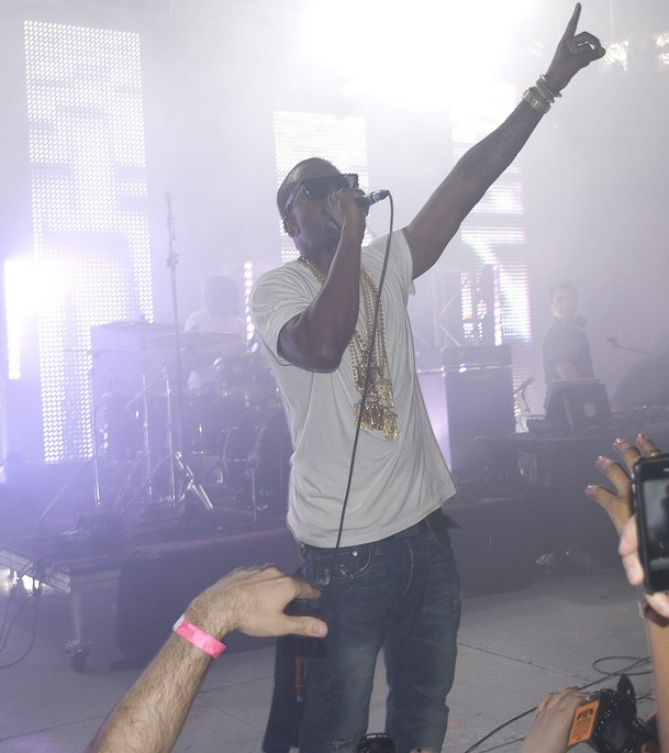 Kanye West performing at South by Southwest on March 22, 2009 in Austin, Texas.